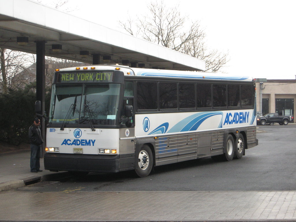 Academy Bus Lines #8871 in Asbury Park, New Jersey, bound for New York City, showing complete branding.